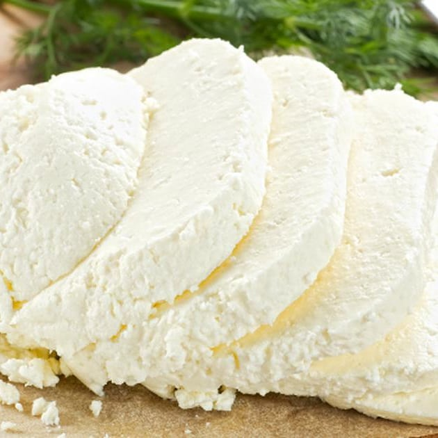 Local cheese